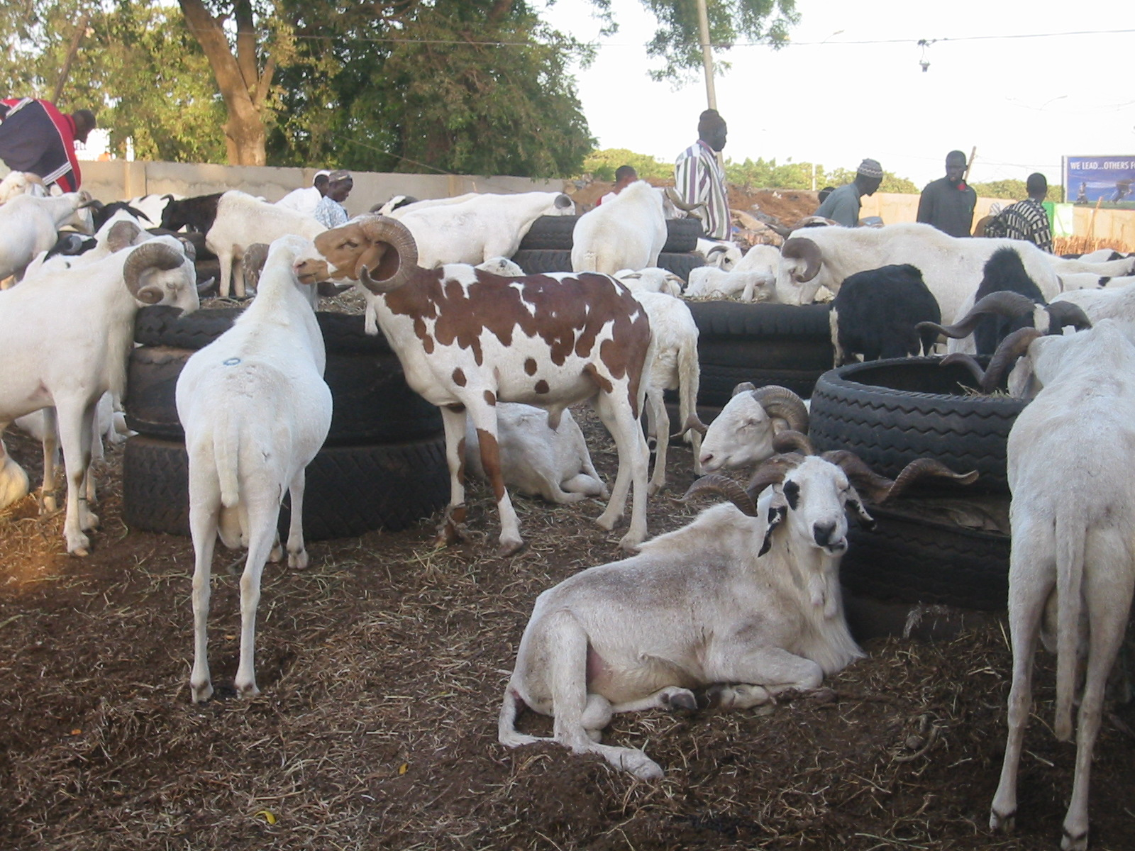 Sheep in Gambia 2009